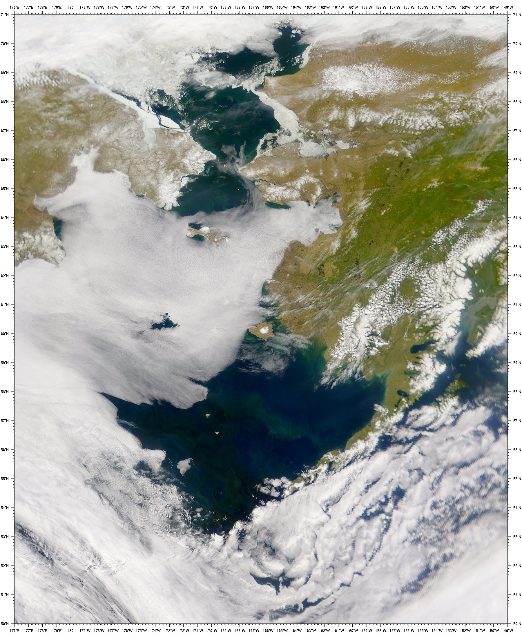 The reddish color of the phytoplankton is still visible in the Bering Sea between the Pribilofs and the Aleutians in this SeaWiFS image collected on June 17, 2001.